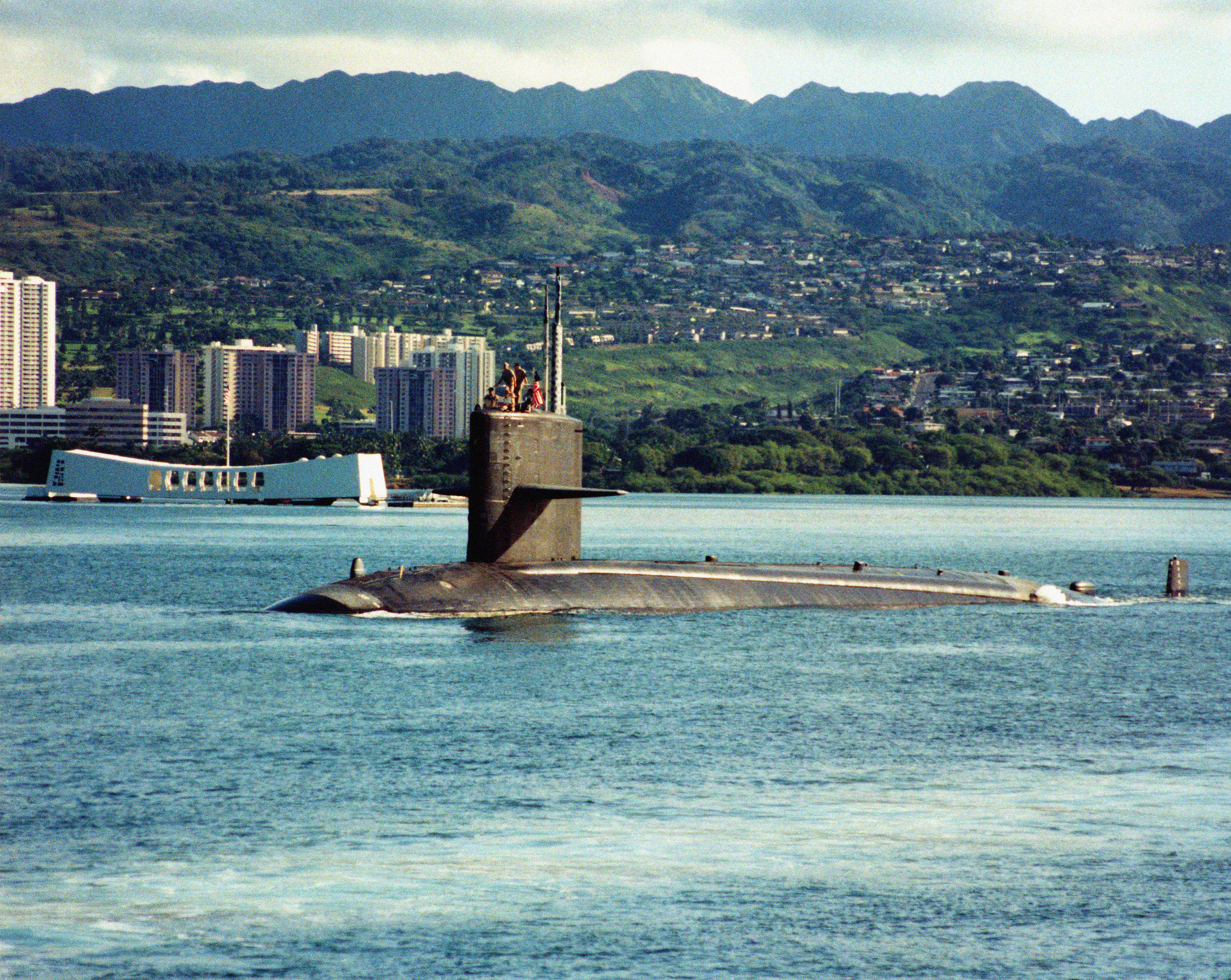 Port bow view of the US Navy (USN) STURGEON CLASS: Attack Submarine, USS HAWKBILL (SSN 666), underway as it exits the harbor at Naval Station Pearl Harbor, Hawaii (HI). The USS Arizona Memorial is visible in the background.Location: NAVAL STATION PEARL HARBOR, HAWAII (HI) UNITED STATES OF AMERICA (USA)